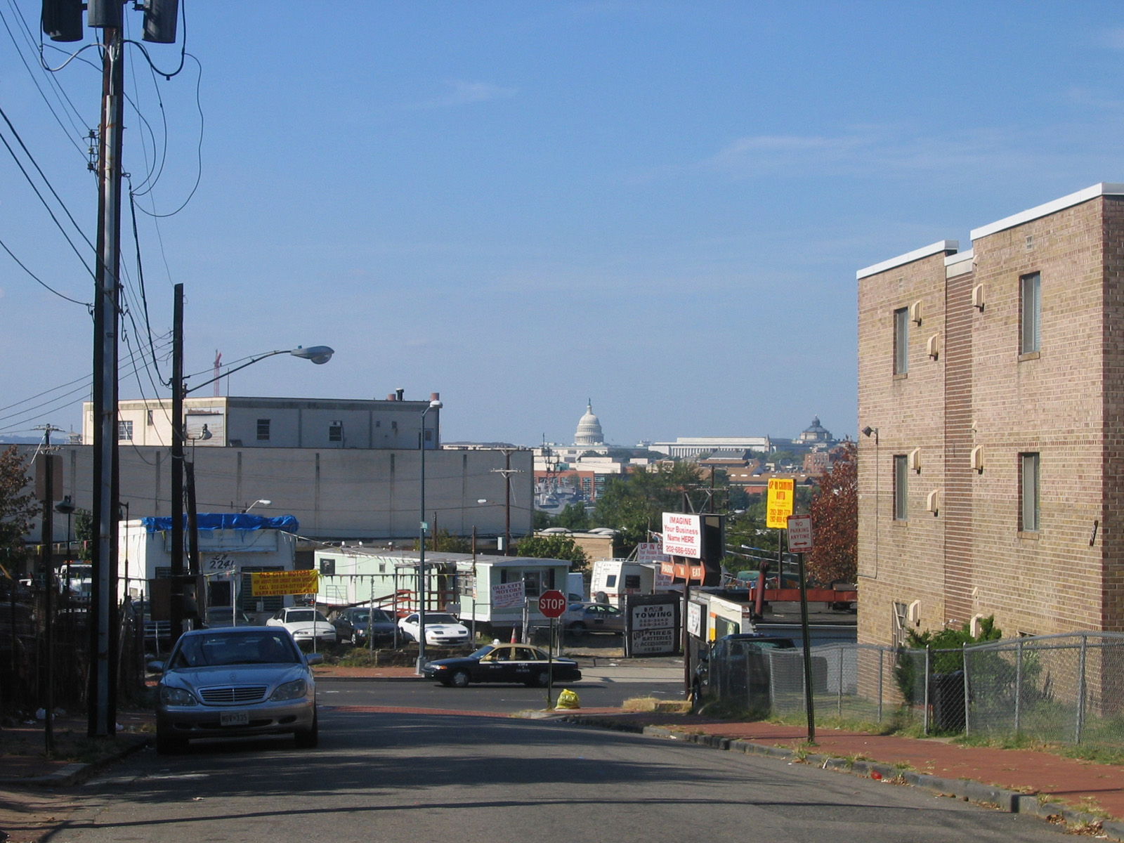 View from Maple View Place SE of Martin Luther King Jr Avenue SE in the Anacostia neighborhood, and the Washington DC skyline.